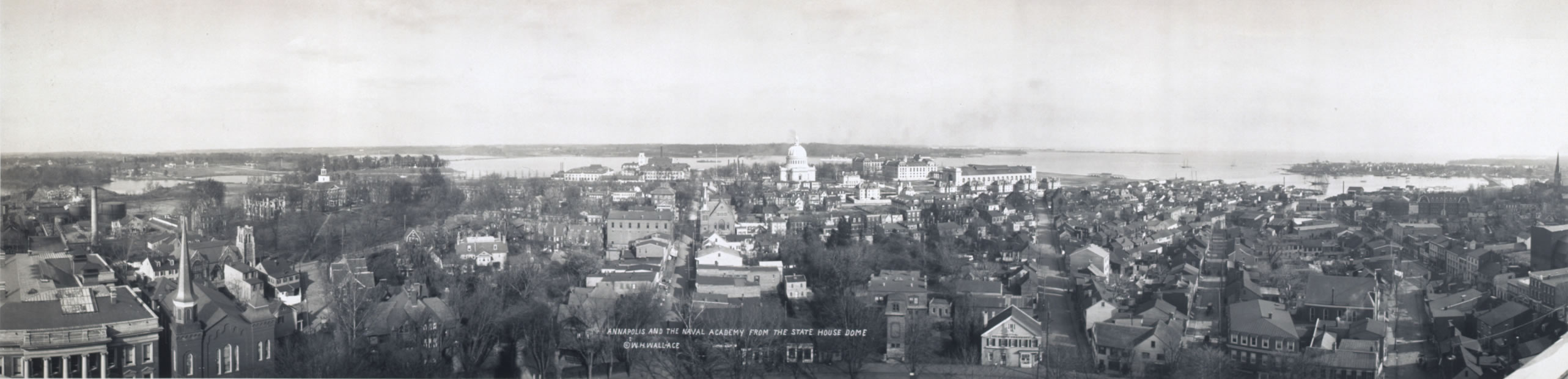 View of Annapolis, Maryland and the Naval Academy from the Maryland State House dome. Image taken in 1911.